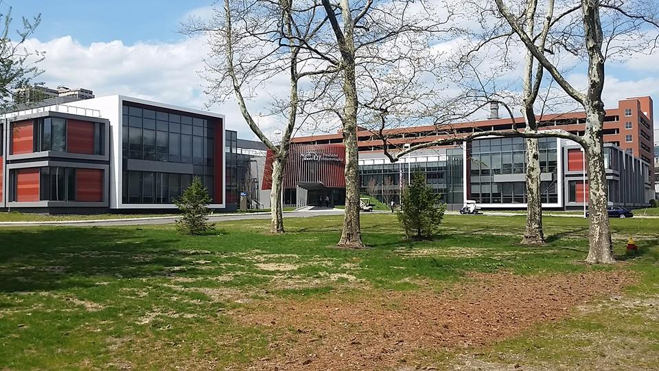 The Zucker Hillside Hospital, previously known as Hillside Hospital, is an in-patient and out-patient psychiatric hospital and clinic in the borough of Queens in New York City.